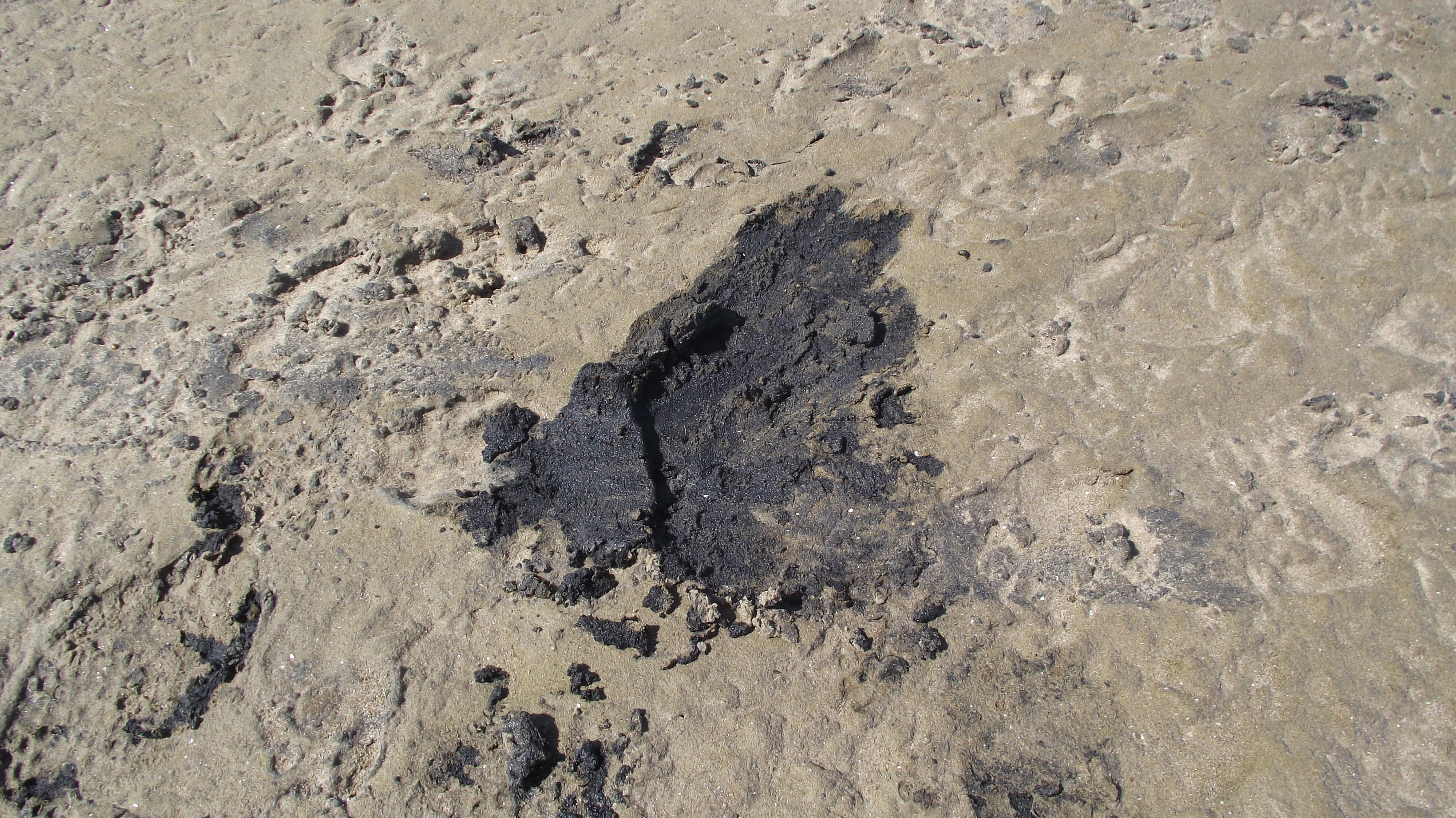 In the lagoon of the motor is black sand slip off covered by a thin layer of sand. The blackness means that there is no oxygen penetrating this layer.